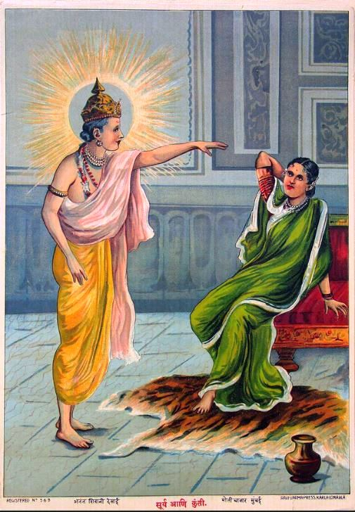 Surya Aani Kunti Ravi Varma Press Product Code: 12F_A-90 Condition: Excellent Availability: Available Size: 10 x 14 inches Medium: Oleographic Print Year: 1920's